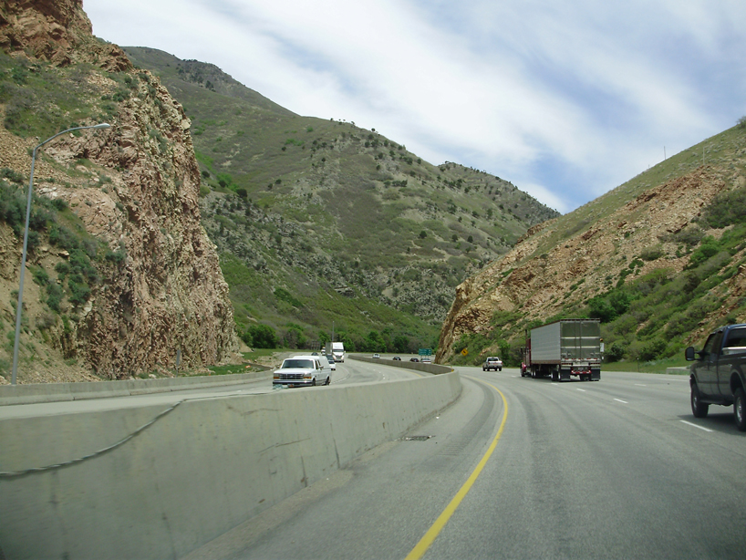 Entering Parleys Canyon, Utah on eastbound Interstate 80